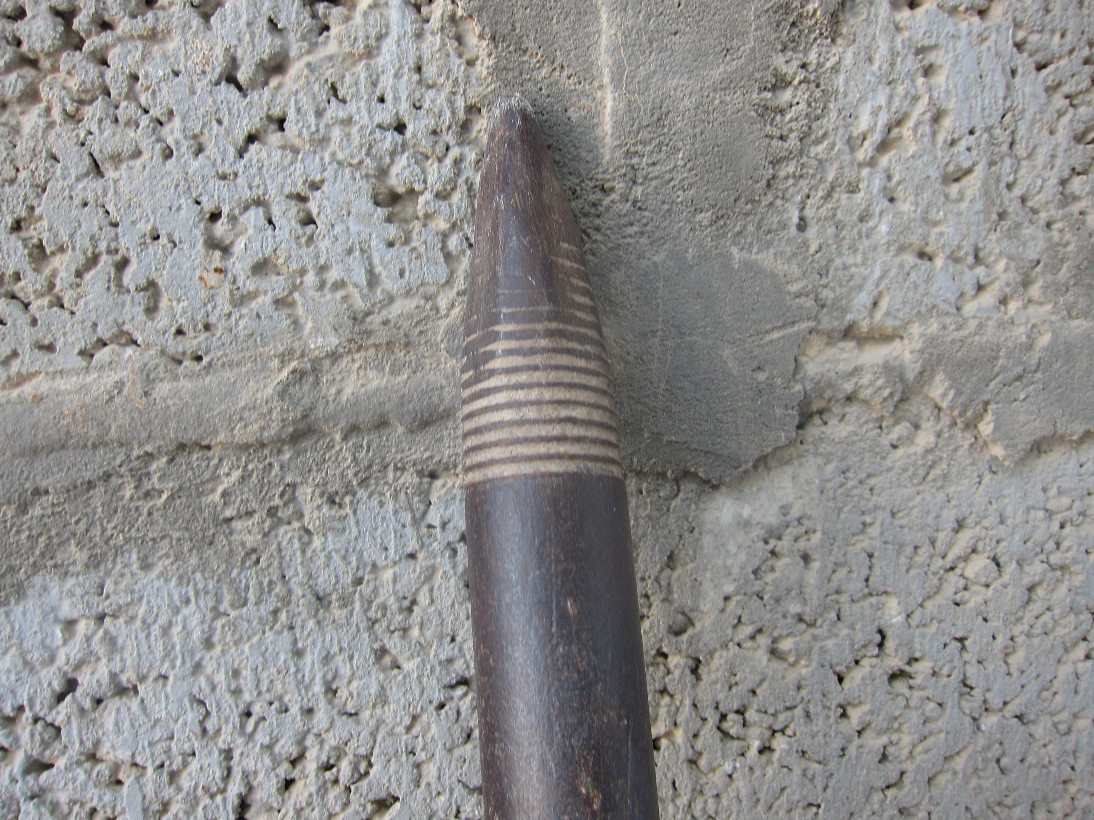 Crowbar, Prybar എളാങ്ക്, അലവാങ്ക്, ഇരുമ്പുപാര, കമ്പിപാര, കുത്തുപാര, കന്നക്കോൽ